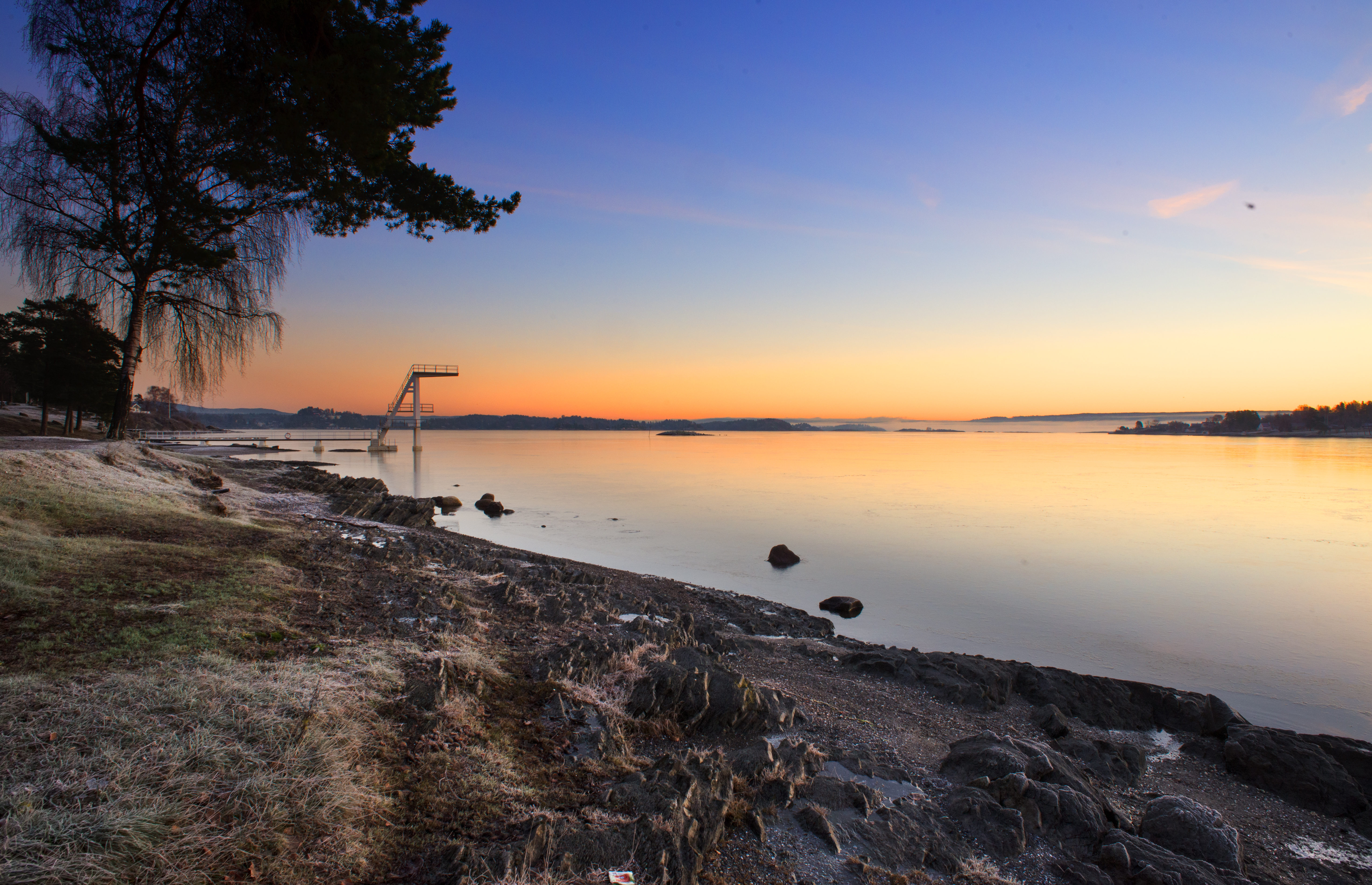 Hvalstrand beach